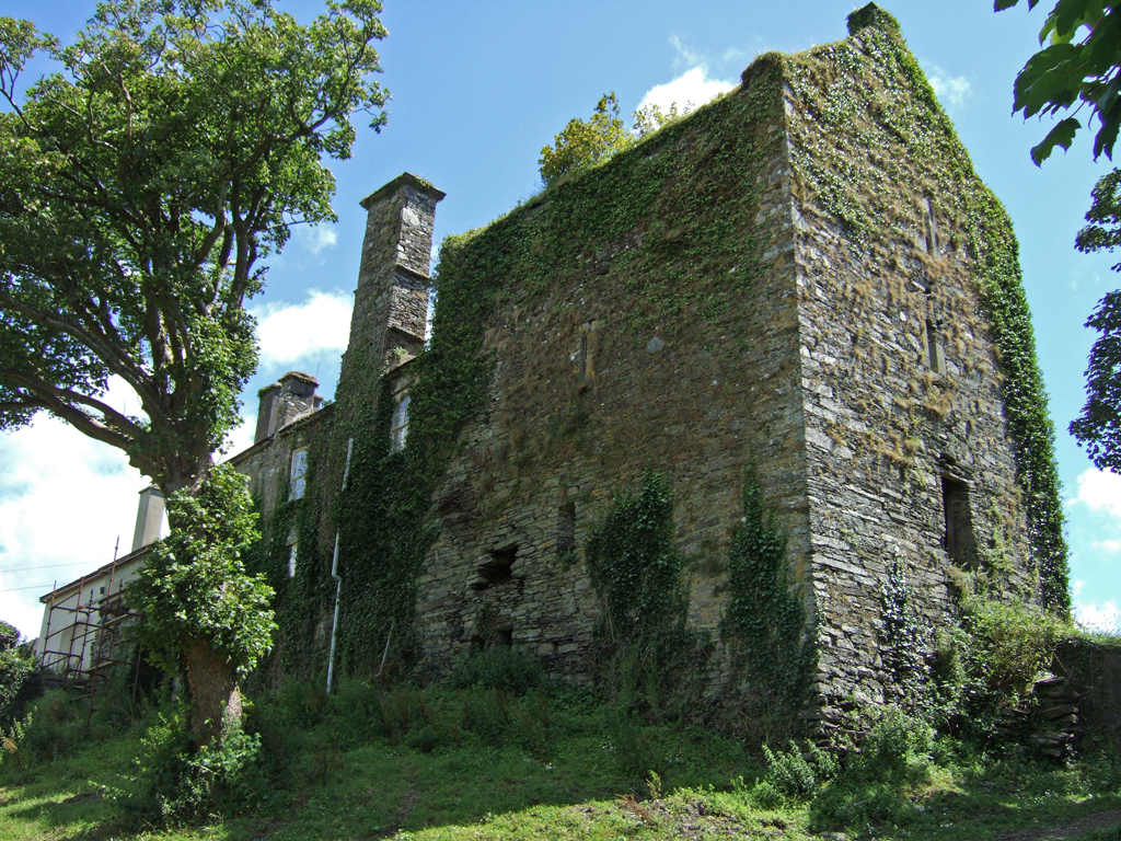 Castle Salem near Ross Carbery More properly known as Benduff, the castle was built during the C15 or C16 by the MacCarthy Reaghs, and unlike most castles in the area, Benduff nestles amongst the hills in a wooded valley. Originally built as a rectangular tower house, an L shaped country house was added during the latter half of the C17. For their part in the Battle of Kinsale, the MacCarthys forfeited their lands, and Benduff was granted to a Major Morris, an officer in Cromwell's army. His son William Morris managed to retain the property, even after the Restoration. Under the influence of his friend William Penn (founder of Pennsylvania in the USA), William became a Quaker, and it was he who renamed the house Castle Salem. Today the property is owned by the Daly family, who for a donation, give conducted tours of the castle, and also operate a modern B & B from the original C17 house, that gives access to the castle from within its walls.